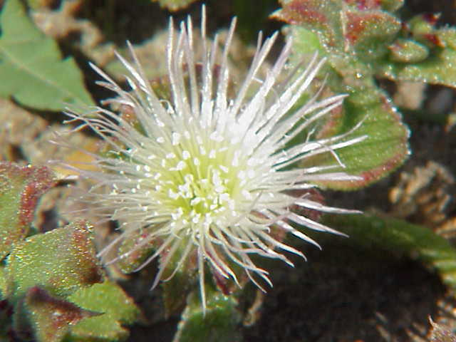 Species: Mesembryanthemum crystallinum Family: Aizoaceae Image No. 2